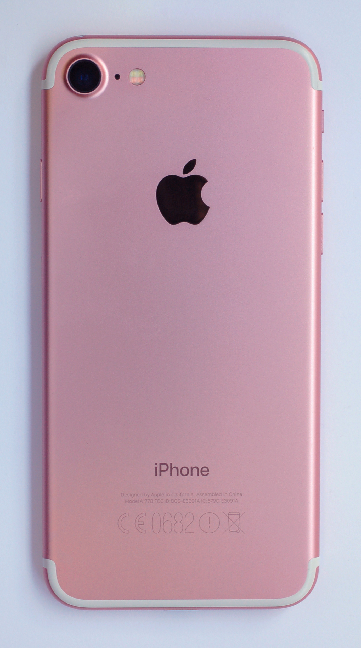 iPhone 7 - A1778 Rose Gold back